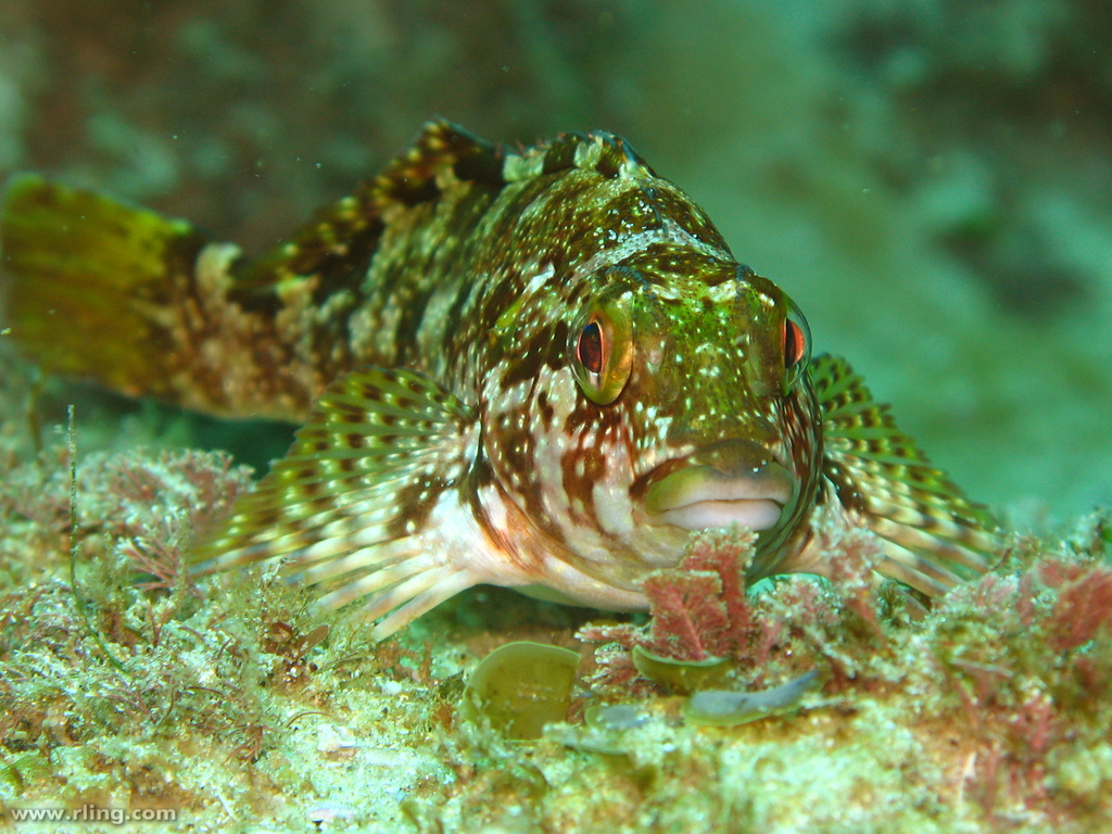 A Kelpfish (Chironemus marmoratus). Statis Rock, Forster, NSW